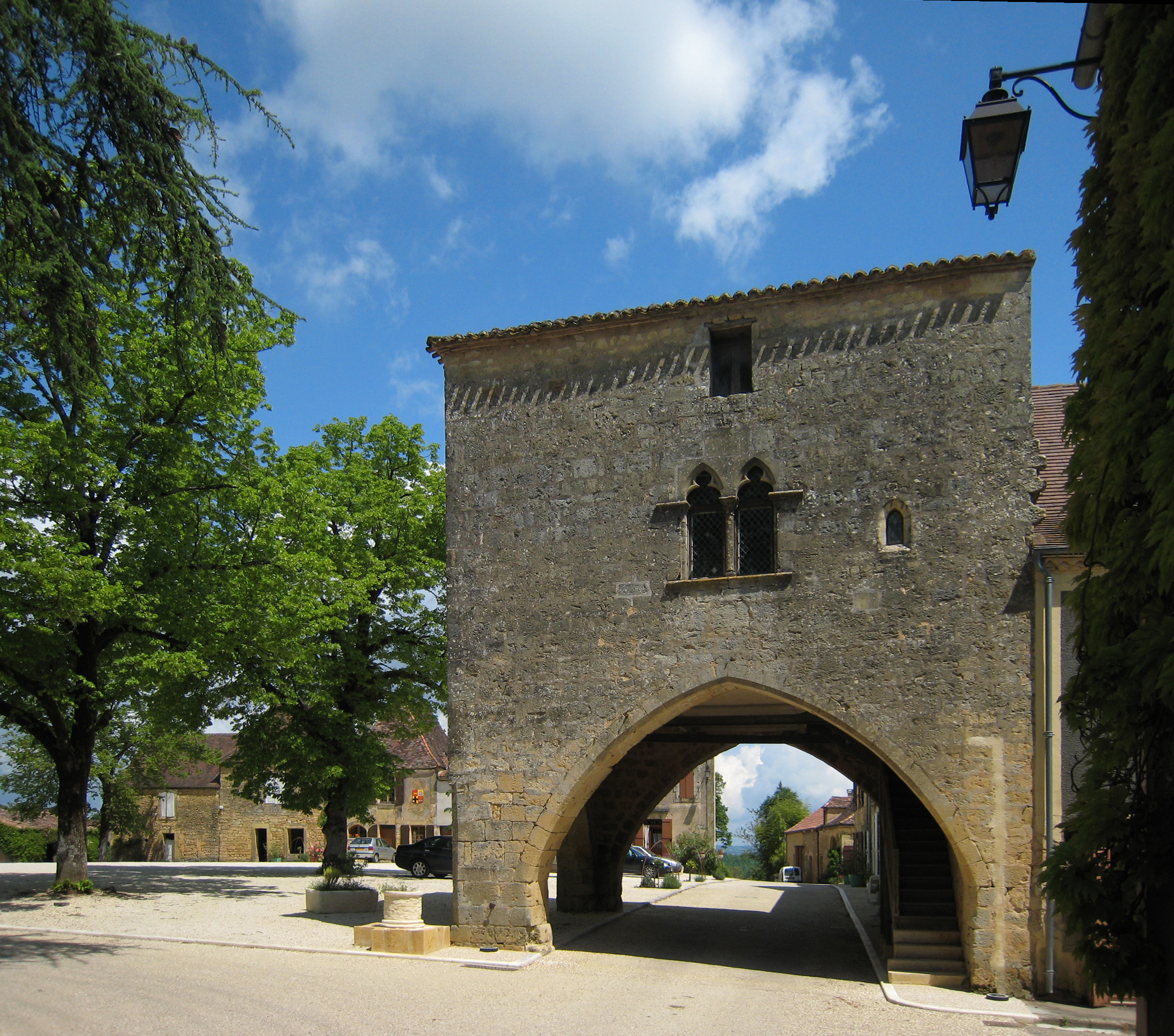 Village of Molières, smallest bastide of the region, situated in the Département of Dordogne/France